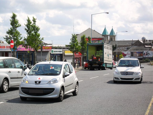 Crumlin Road at the Ardoyne The Ardoyne is a small Roman Catholic enclave surrounded by two larger Protestant areas (Ballysillan and Shankill/Woodvale) - the violence that has been seen here since the early days of the conflict has led to it being regarded as one of the best known 'interfaces' in Belfast.